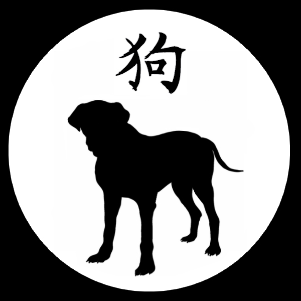 Signe astrologique chinois du Chien